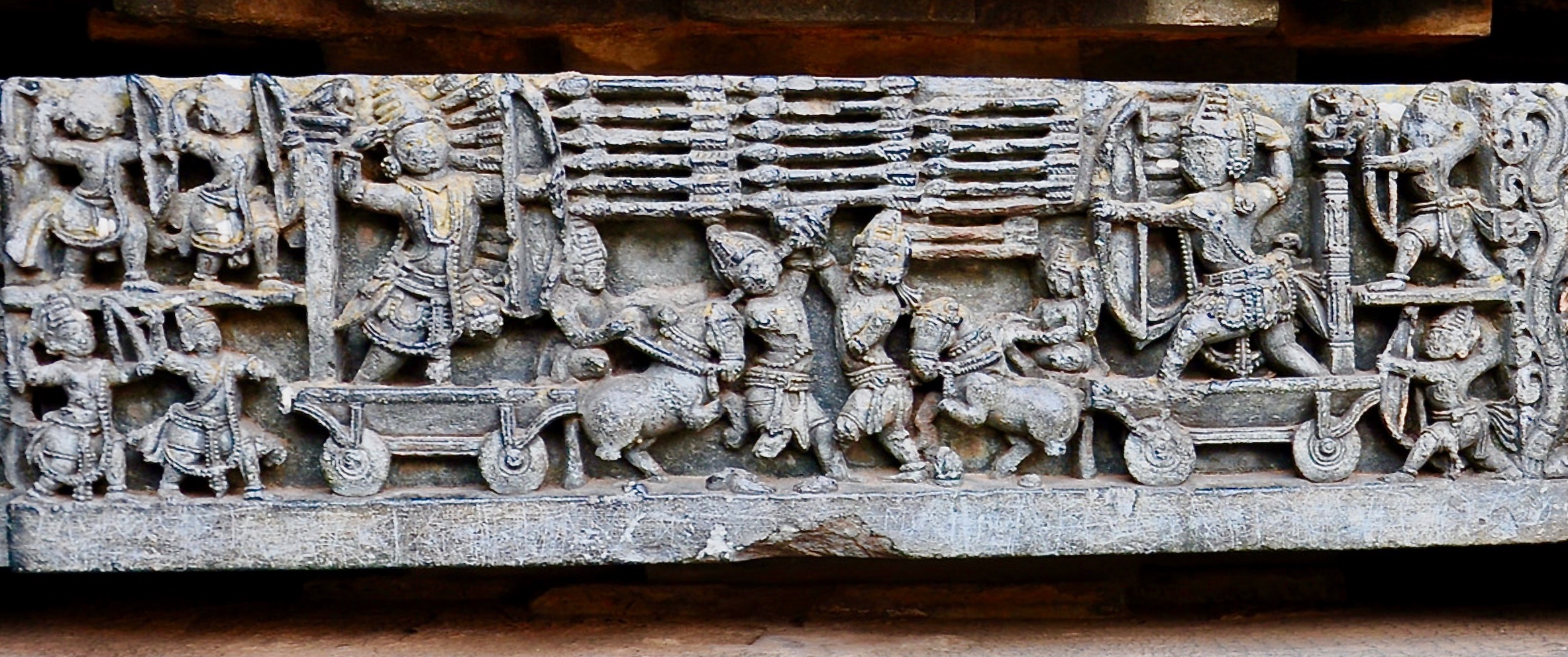 The Hoysaleswara Hindu temple is dedicated to Shiva. It was built in the first half of 12th century in Halebid (previously called Dwarasamudra, Hale bidu means "old capital"), sponsored by King Vishnuvardhana of the Hoysala Empire. During the early 14th century, Halebidu temple site along with others were sacked, looted and much artwork damaged (particularly nose/face, hands) by Muslim invaders from northern India (Khilji dynasty and Tughlaq dynasty of Delhi Sultanate). The temple belongs to the Shaivism tradition of Hinduism, yet reverentially presents its Vaishnavism and Shaktism tradition legends and ideas. The relief panels present legends from the Ramayana, the Mahabharata (the above is the Karna-Arjuna fight scene), and the Puranas. Vedic deities such as Agni, Indra and Surya, various avatars of Vishnu, the Hindu goddesses such as Saraswati, Lakshmi avatars, Durga, Kali among others are presented. The carving is three dimensional where reliefs often emerge as statues with depth. Panels are continuous, with one perspective showing one part of the legend, a perpendicular perspective of the same column or wall or corner showing another part of the same legend. The carving material was soapstone.